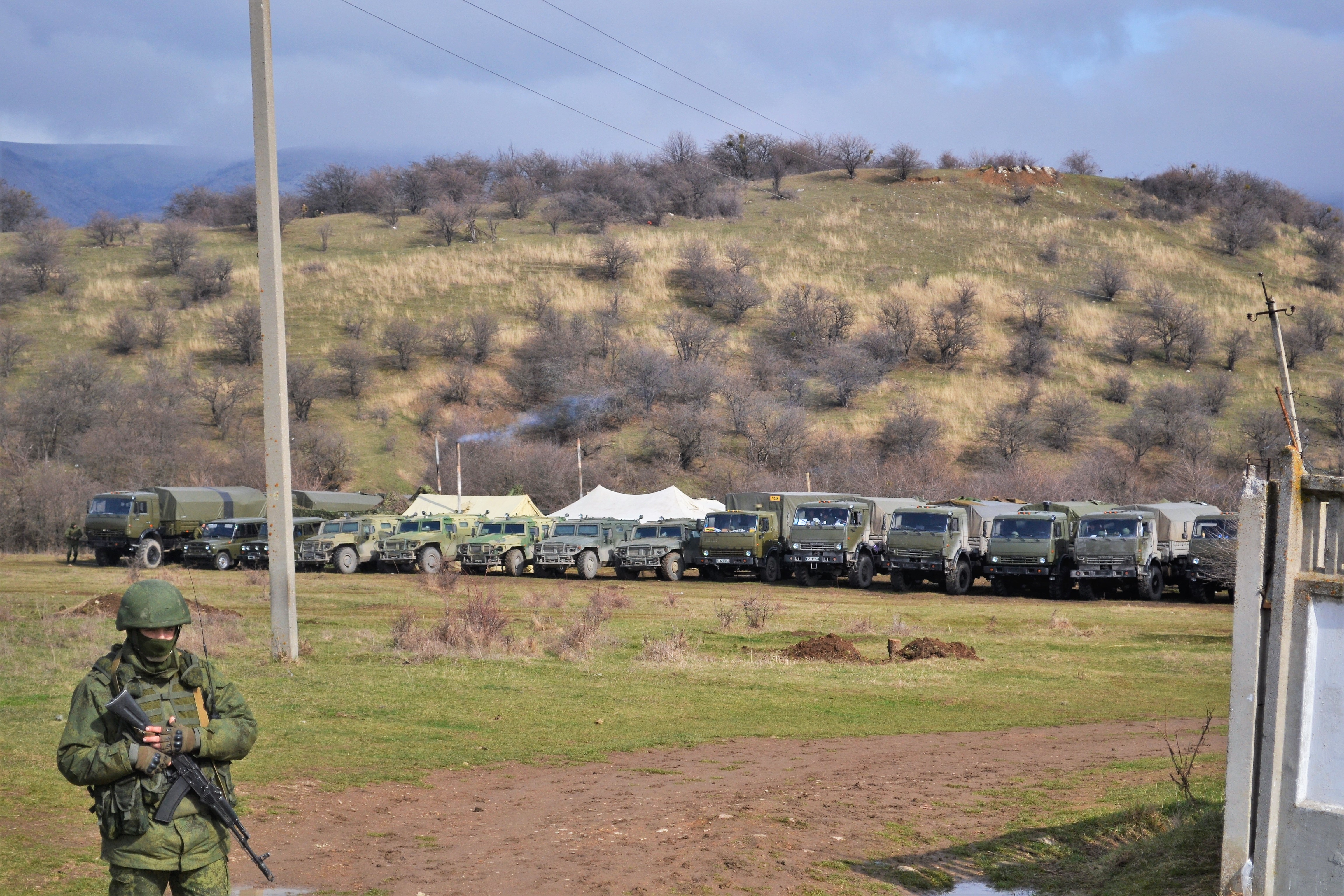 Military base at Perevalne during the 2014 Crimean crisis.